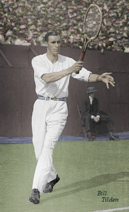 American tennis player Bill Tilden (1893-1953) - colorized